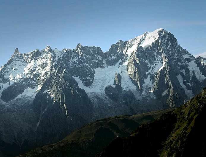 Grandes Jorasses (4206 m) seen from Testa d'Arpy (I) Picture taken and edited by user Idefix august 2006